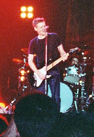 Bryan Adams playing live in Dublin, Ireland